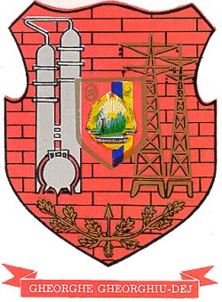 Communist coat of arms of Gheorghe Gheorghiu-Dej municipality, Bacău County, Socialist Republic of Romania.